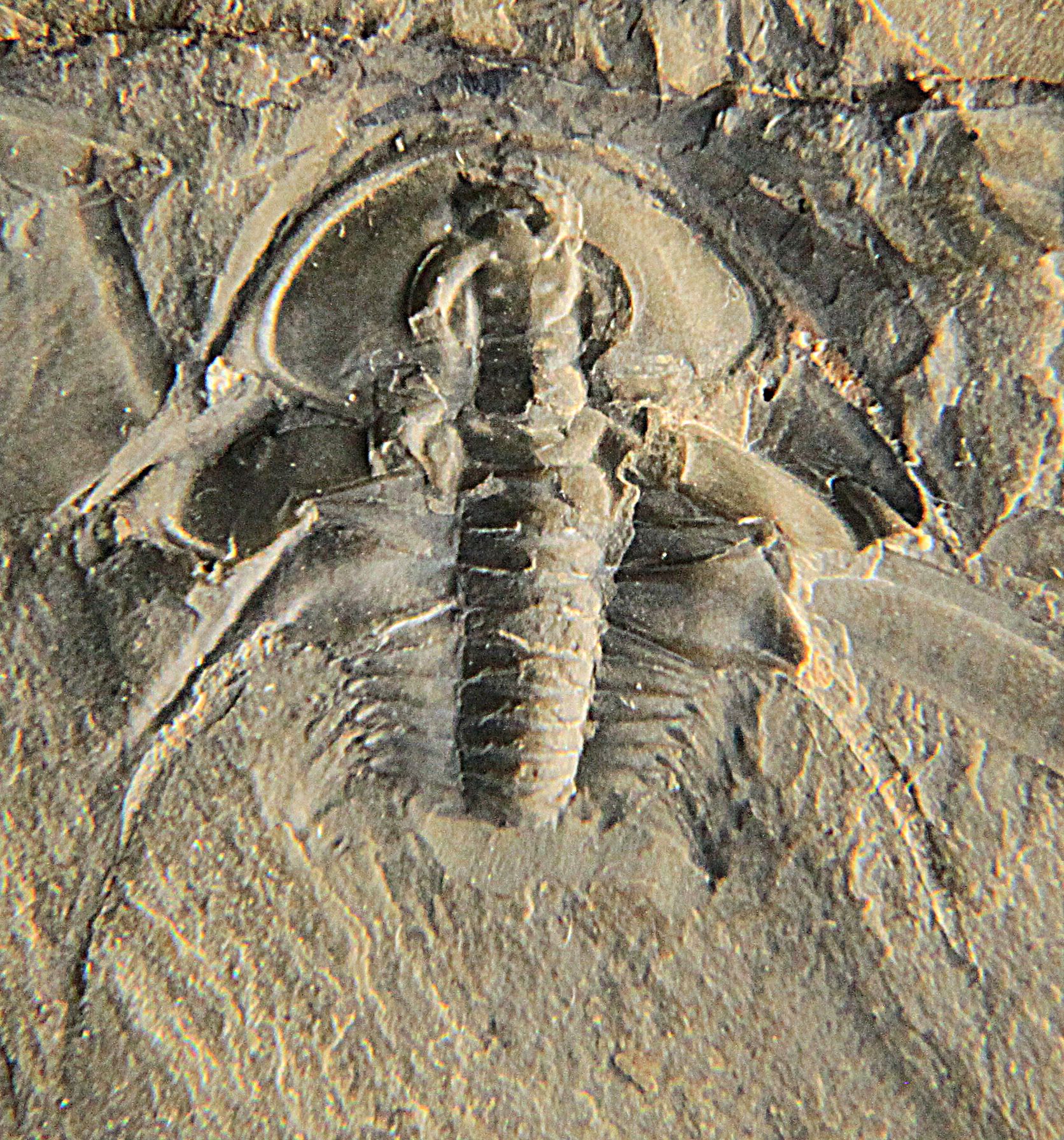 A Bristolia mohavensis trilobite, Order Redlichiida, Family Biceratopsidae, 15mm along the axis, collected from the Latham Shale, California, USA, from the final stage of the Lower Cambrian (Toyonian); Actually this is not one specimen, but a small cephalon superimposed on an enroled larger specimen.